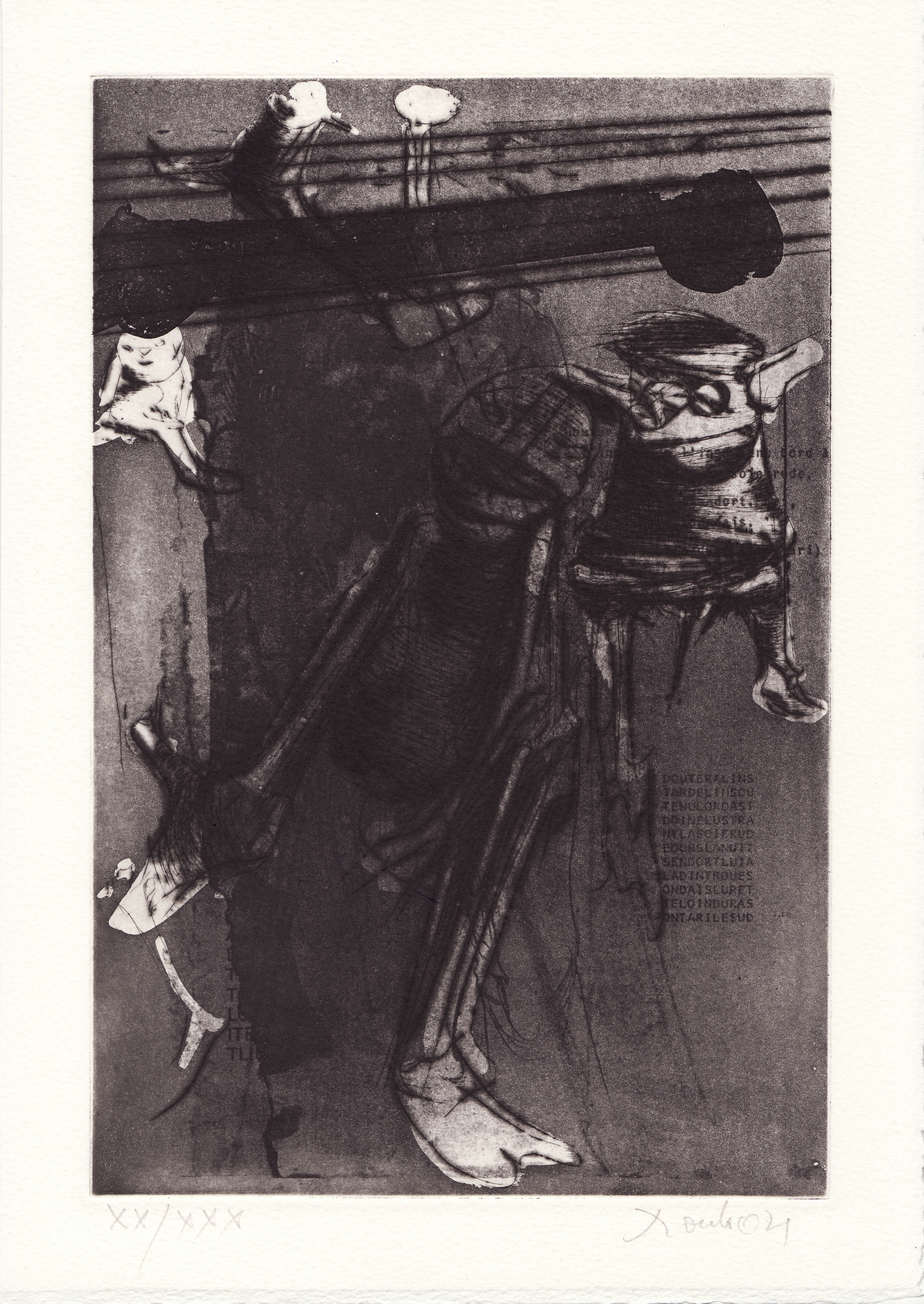 Dado Djuric - Engraving on Copper Plate, 30 x 22 cm.